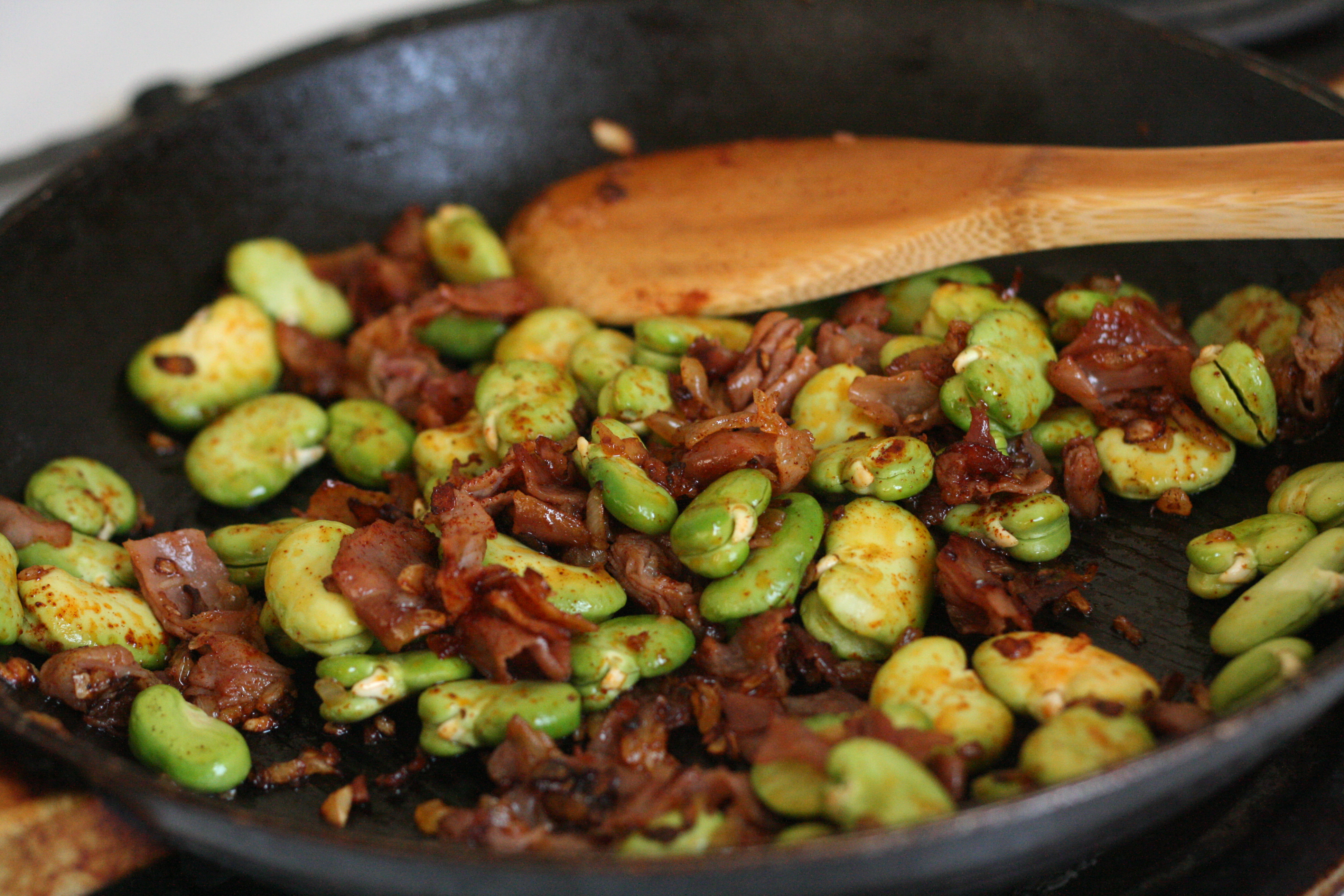 Fava beans with serrano jam, garlic and onion.